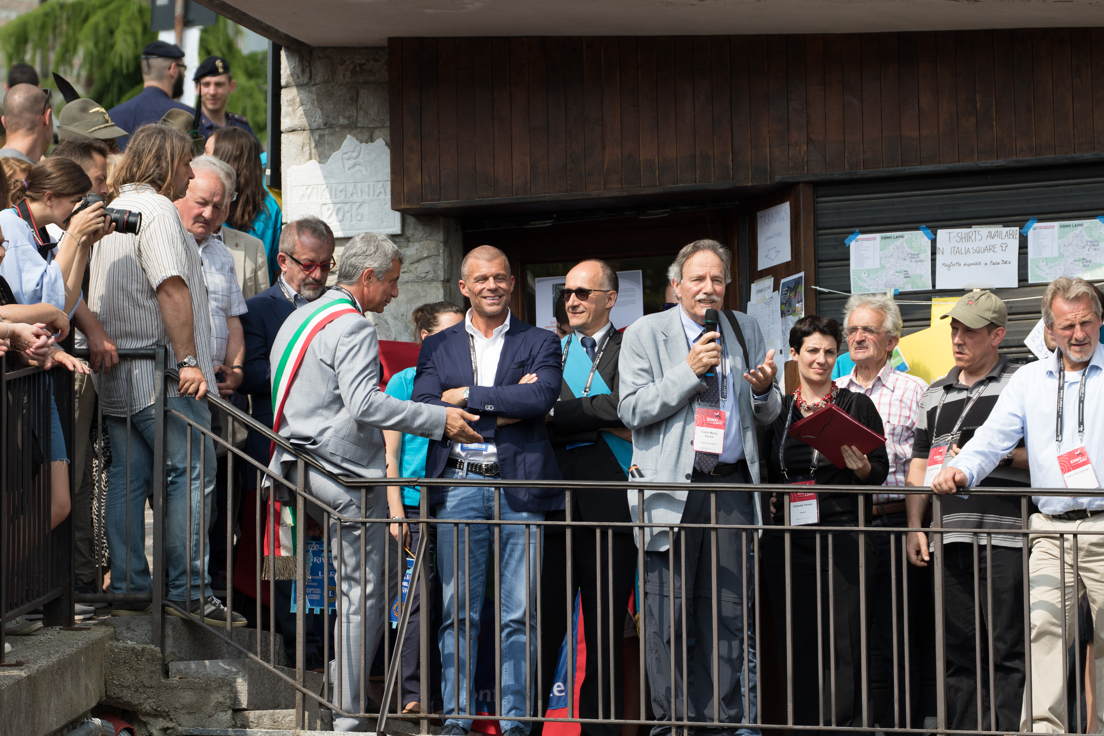 Carlo Maria Pensa, Iolanda Pensa, Pietro Pensa, Roberto Maroni, Daniele Nava and Flavio Polano at the closing ceremony of Wikimania 2016 in Esino Lario, Italy.